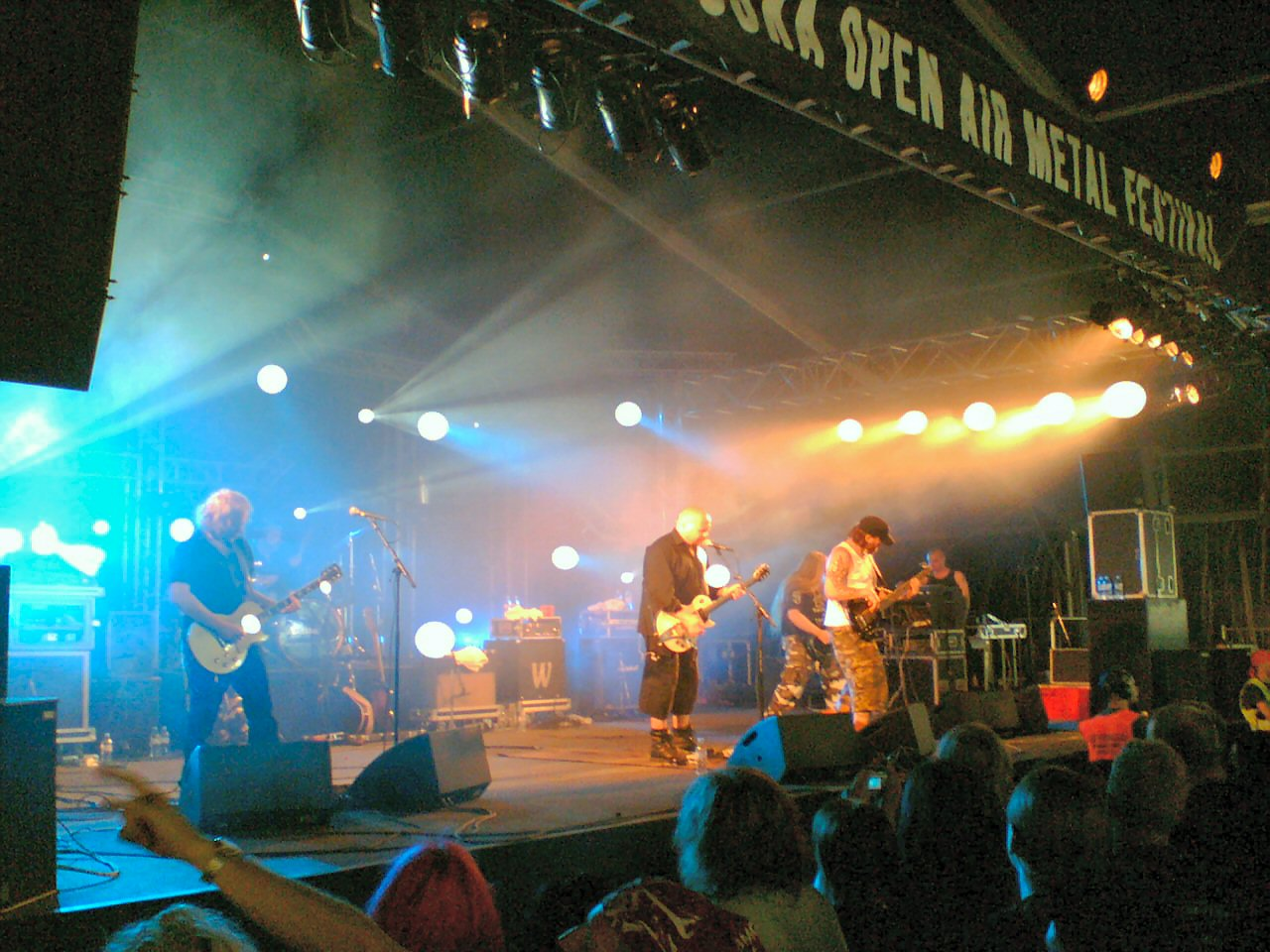 Musician Timo Rautiainen (Finland) live at Tuska Open Air metal festival (2006)